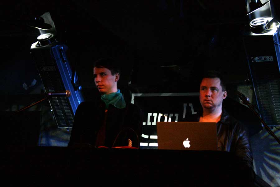 Koop Live, 2007